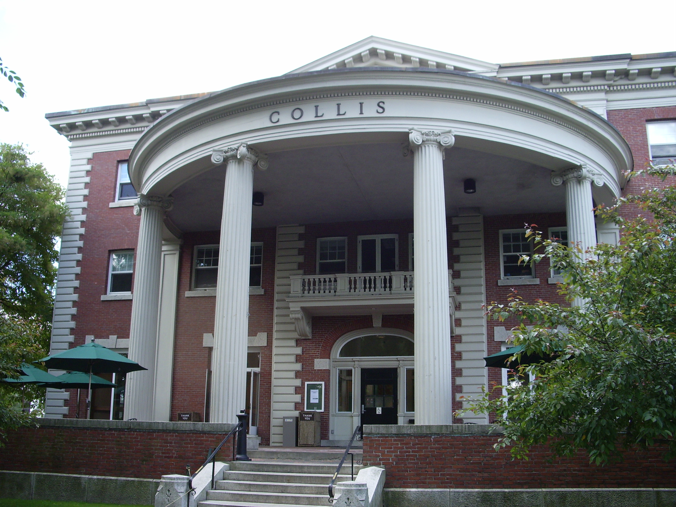 Photograph of the Collis Center at the campus of Dartmouth College in Hanover, New Hampshire.